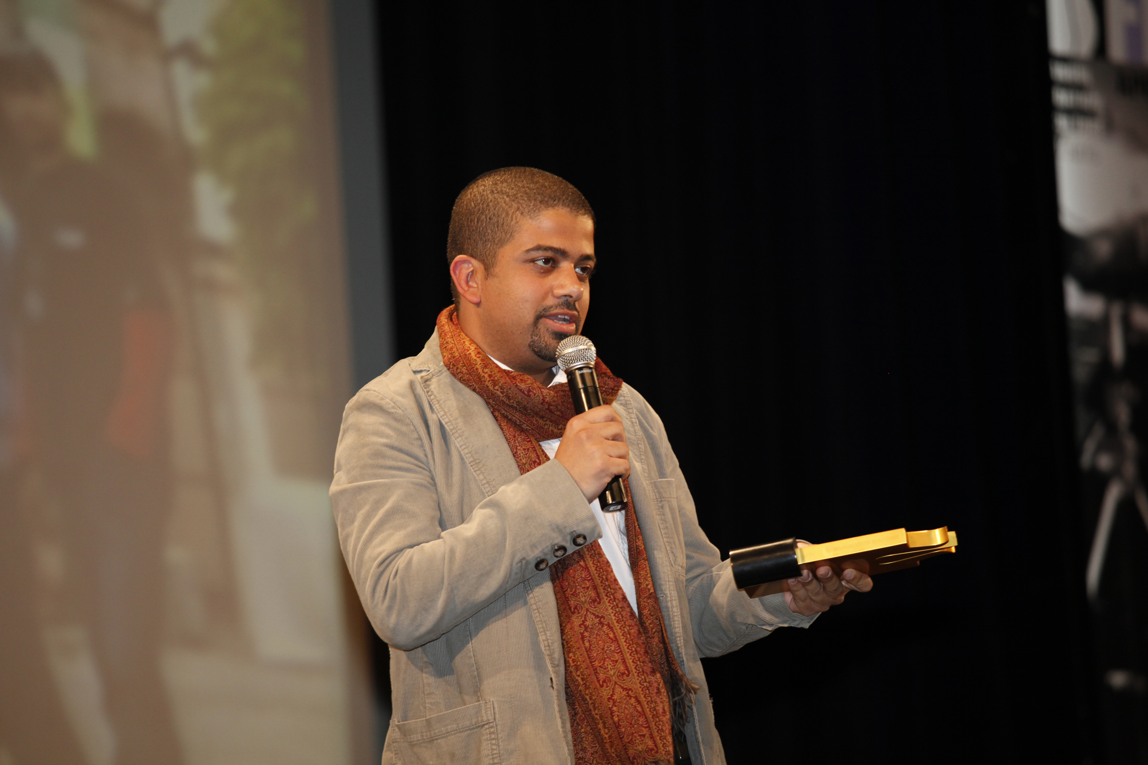 Ahmad Abdalla Receiving the award at Istanbul Film Festival